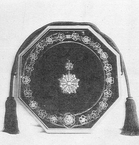 Collar of the Supreme Order of the Orchidaceae